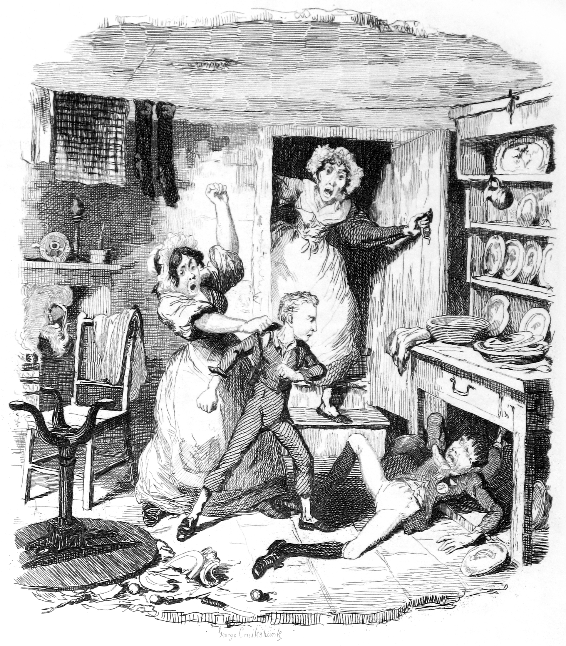 A photograph of an engraving in The Writings of Charles Dickens volume 4, Oliver Twist, titled "Oliver plucks up a Spirit".